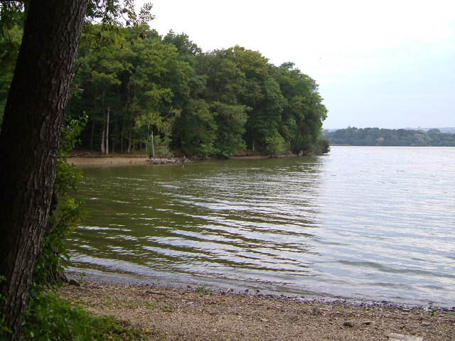 Chard Reservoir. The northeast corner of the reservoir. See 244982. I think that's a Great Crested Grebe near the far shore.